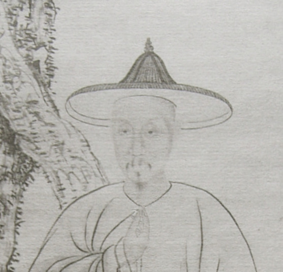 Detail of A portrait of Ruan Yuan(1764～1849), dated 1808, titled as Leitang Anzhu small portrait